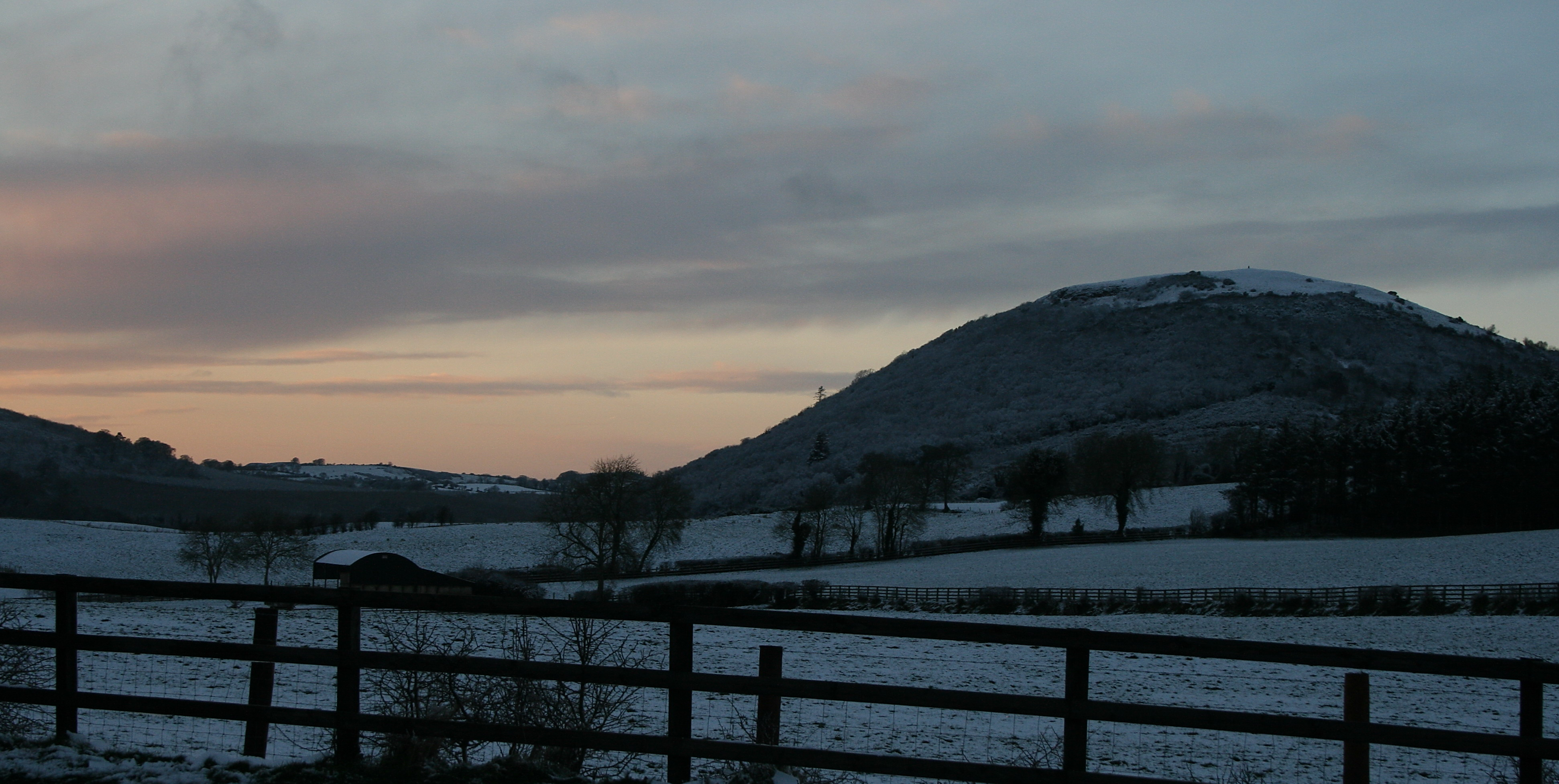 A gavesque Knockeyon over Lough Deravaragh at Crookedwood, County Westmeath, Ireland